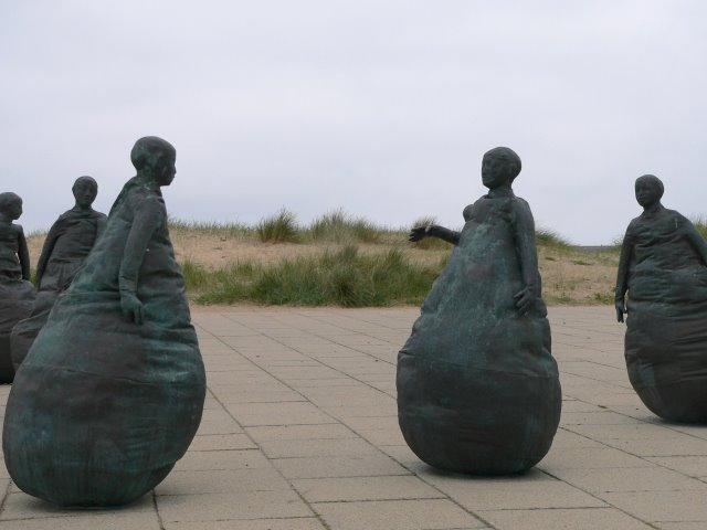 Conversation Piece by Juan Munoz (1999) Conversation Piece is part of the Art on the Riverside project.